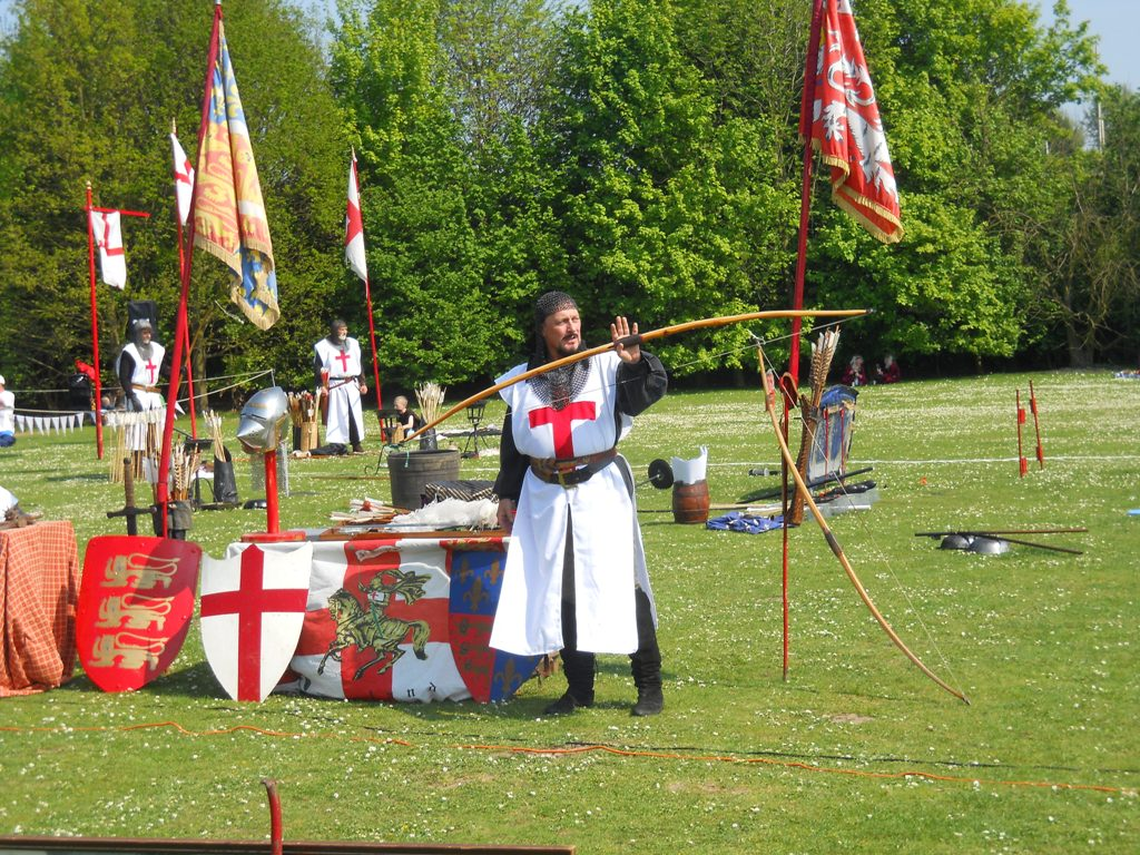 Archer - English Festival, St. George's Day, RIverside, Medway